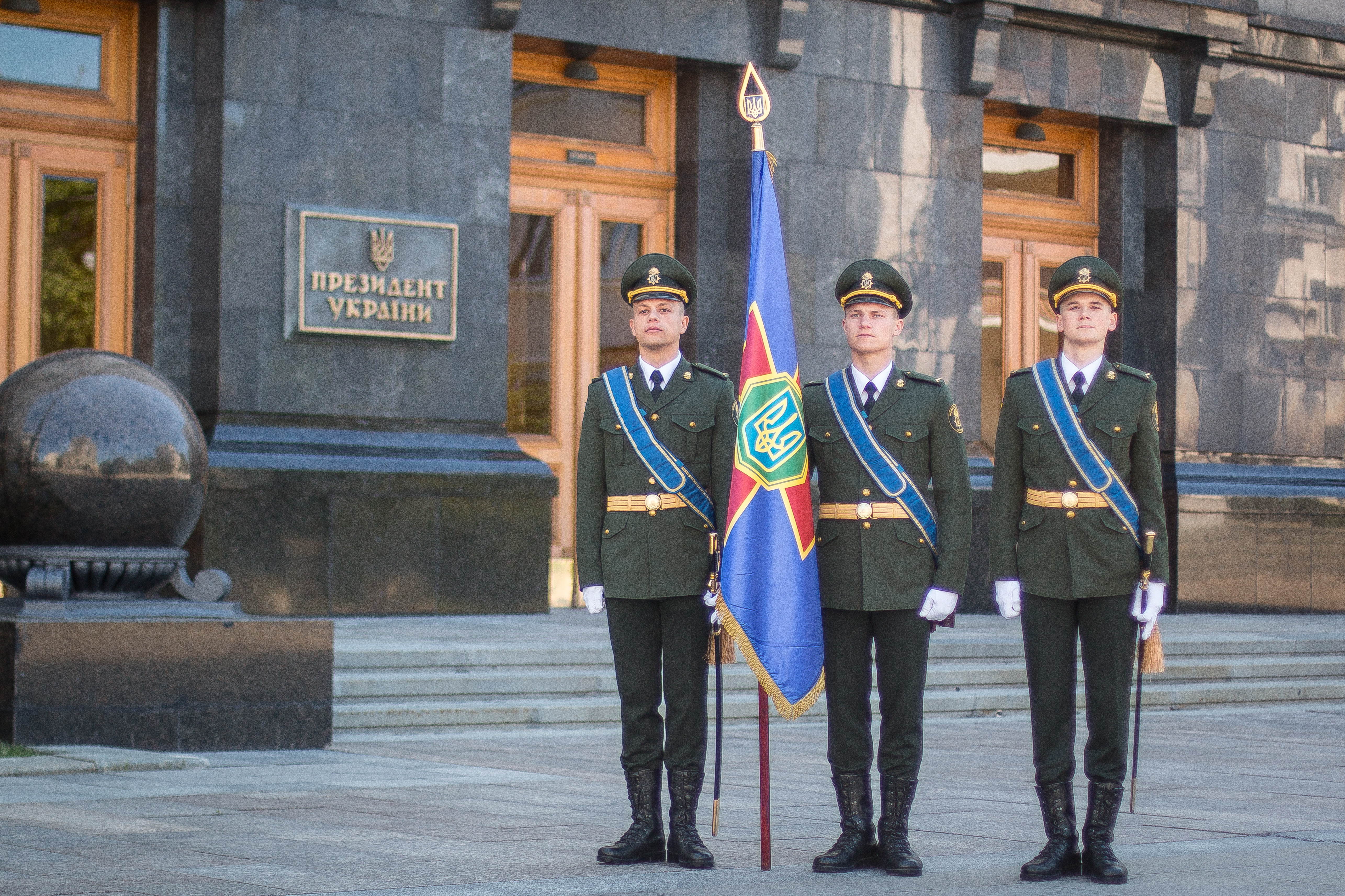 Members of the Special Honor Guard of the National Guard of Ukraine.